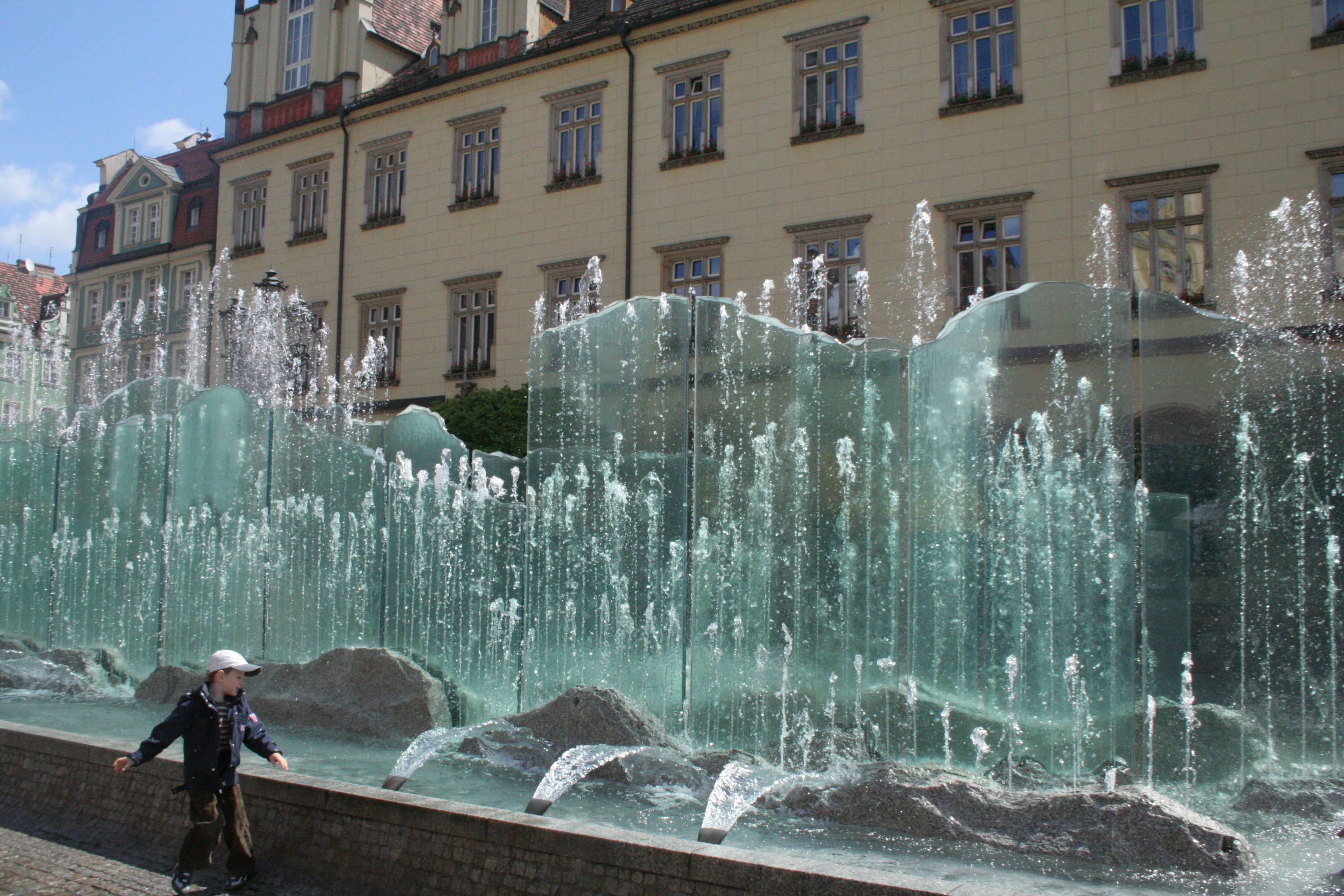 Poland, Wroclaw, market square, fountain